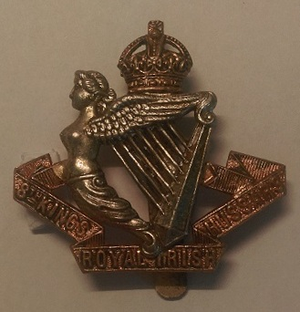 Photo of 8th King's Royal Irish Hussars Cap Badge from personal collection